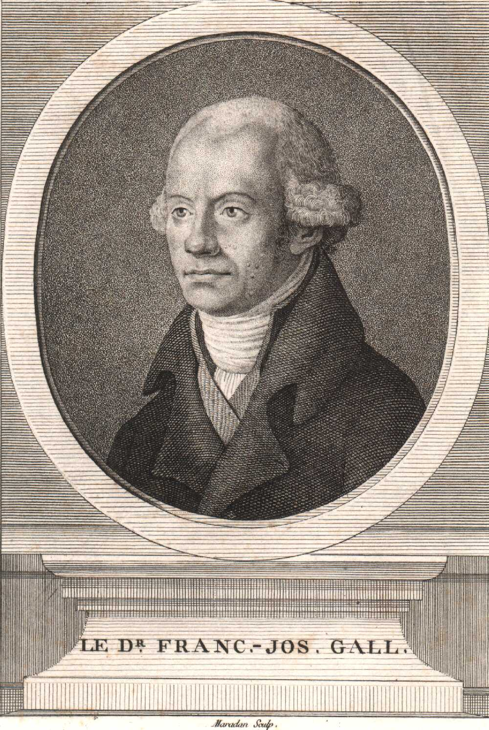 Franz Joseph Gall (1758–1828), German physician and anatomist